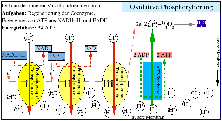 Oxidative Phosphorylierung (Oxidative phosphorylation / Atmungskette